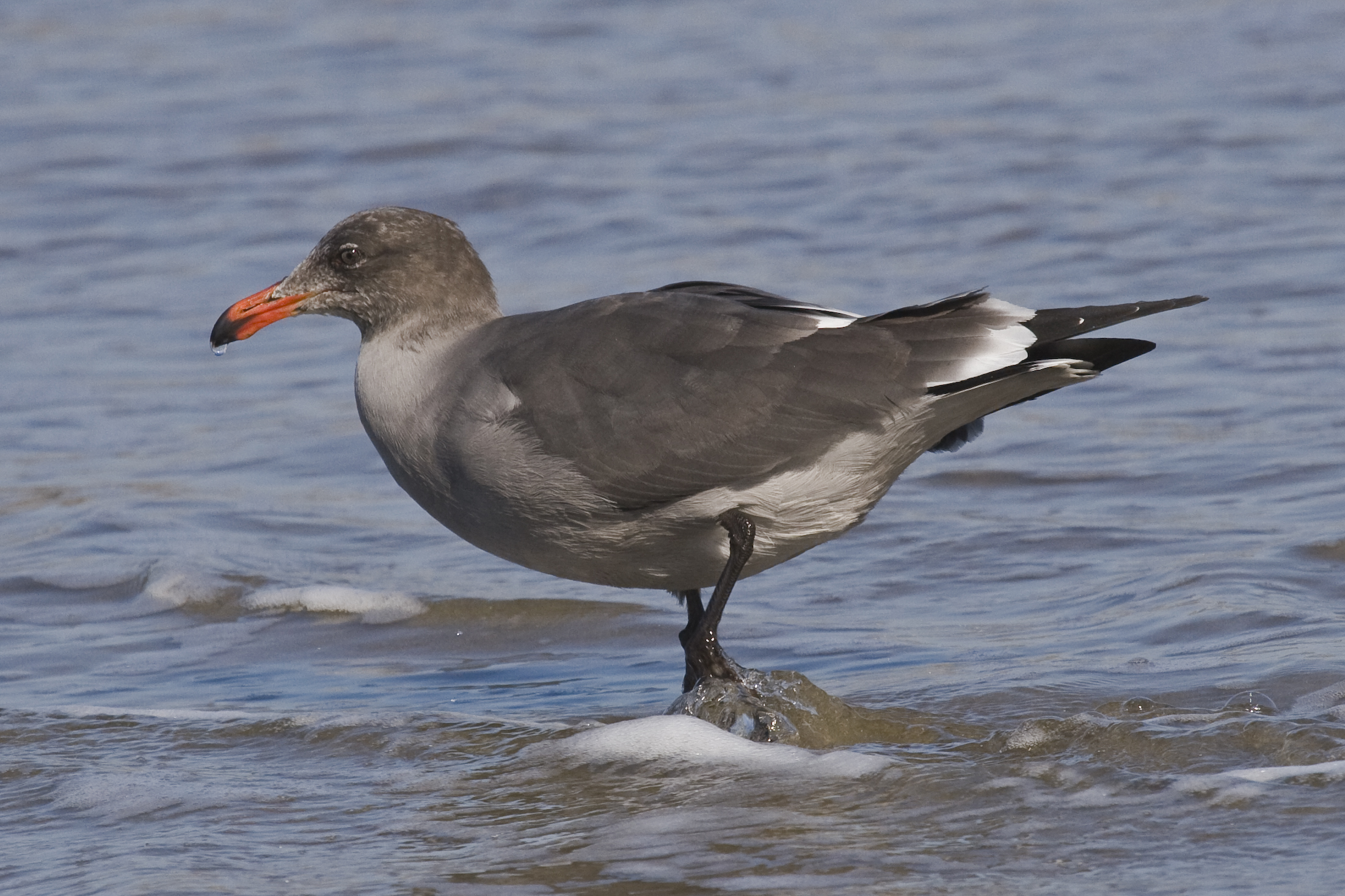 Heermann's Gull (Larus heermanni) (in winter plumage) in Morro Bay, CA, Morro Rock north surfing area, Morro Bay, CA Mon. Nov. 20, 2007 20nov2007 Photo by Mike Baird, Canon 20D with 100-400mm IS lens handheld taken with wetsuit standing in sand and mild surf